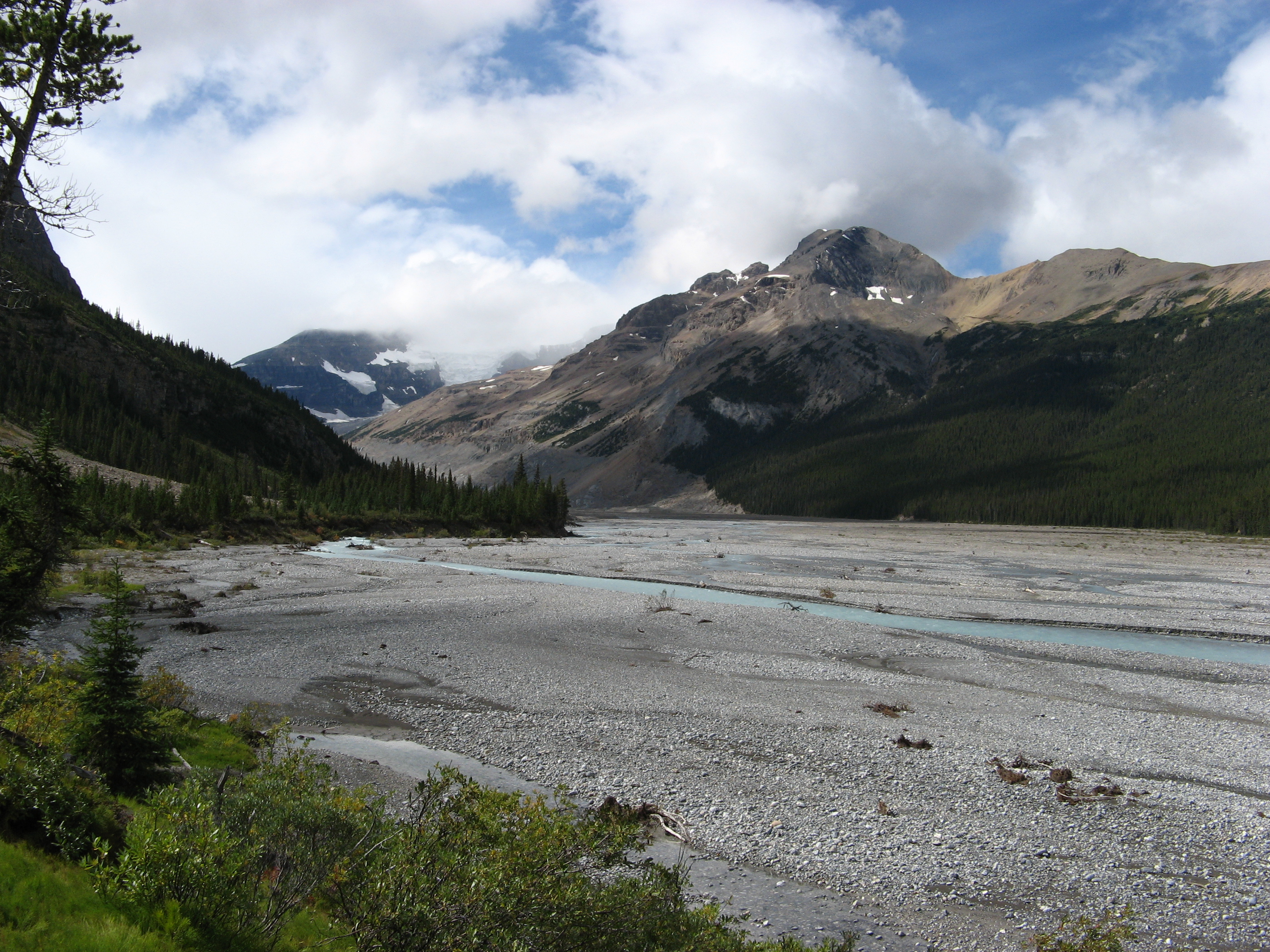 The North Saskatchewan in Banff National Park.